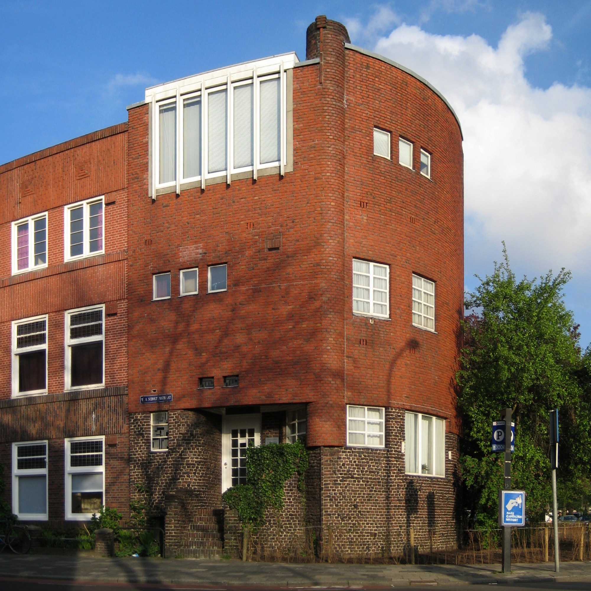 House (1923) in the Dutch city of Groningen.